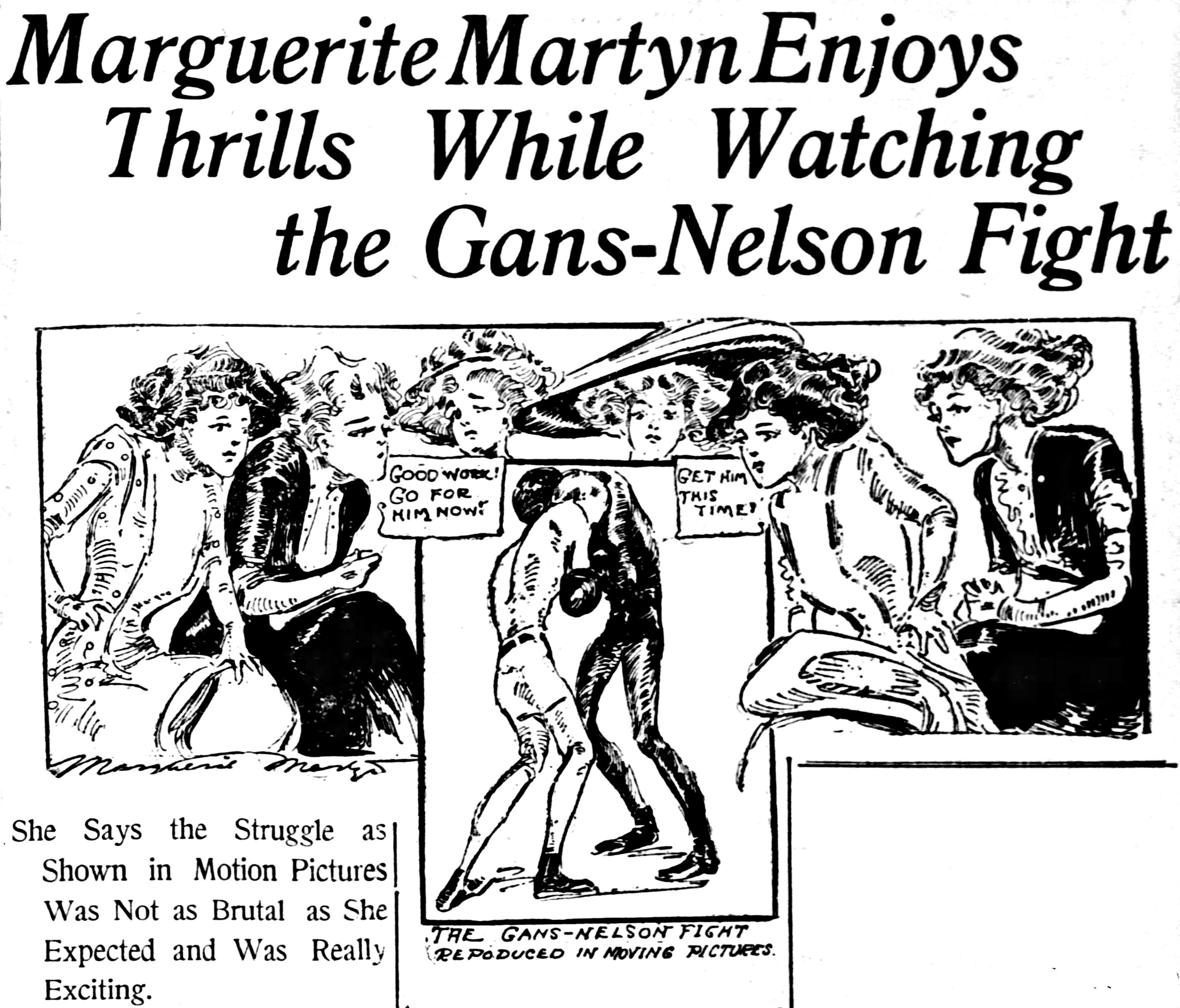 Sketch by Marguerite Martyn of women watching a motion picture of the Joe Gans - Oscar Battling Nelson prizefight on July 4, 1908, with quotations attributed by Martyn to the women, and a sketch of the two men in the center. Includes the headline and a subhead.